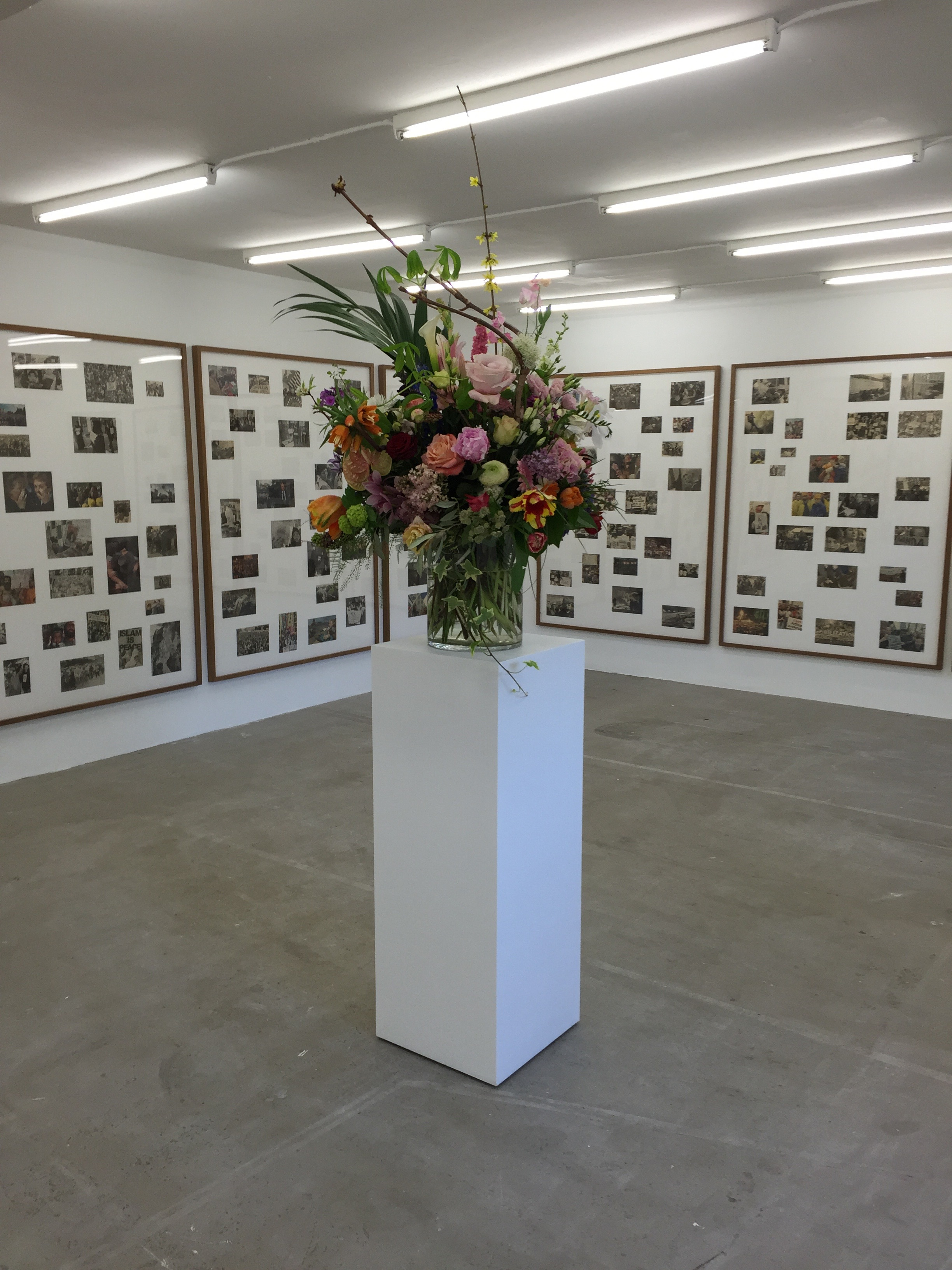 Bouquet V (2010) by Willem de Rooij exhibited at Index - The Swedish Contemporary Art Foundation in 2015.